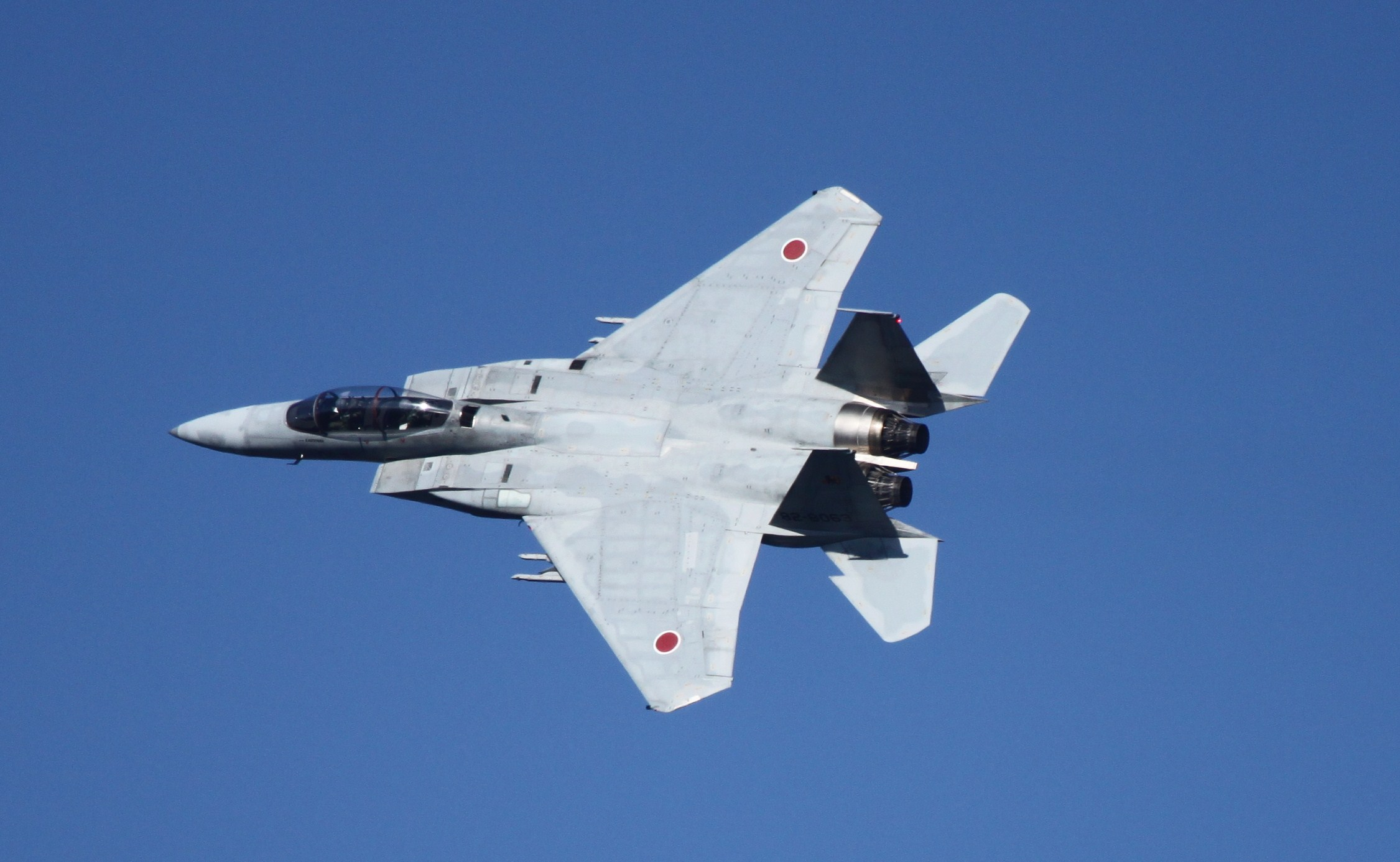 Twin pit Eagle in the break to land